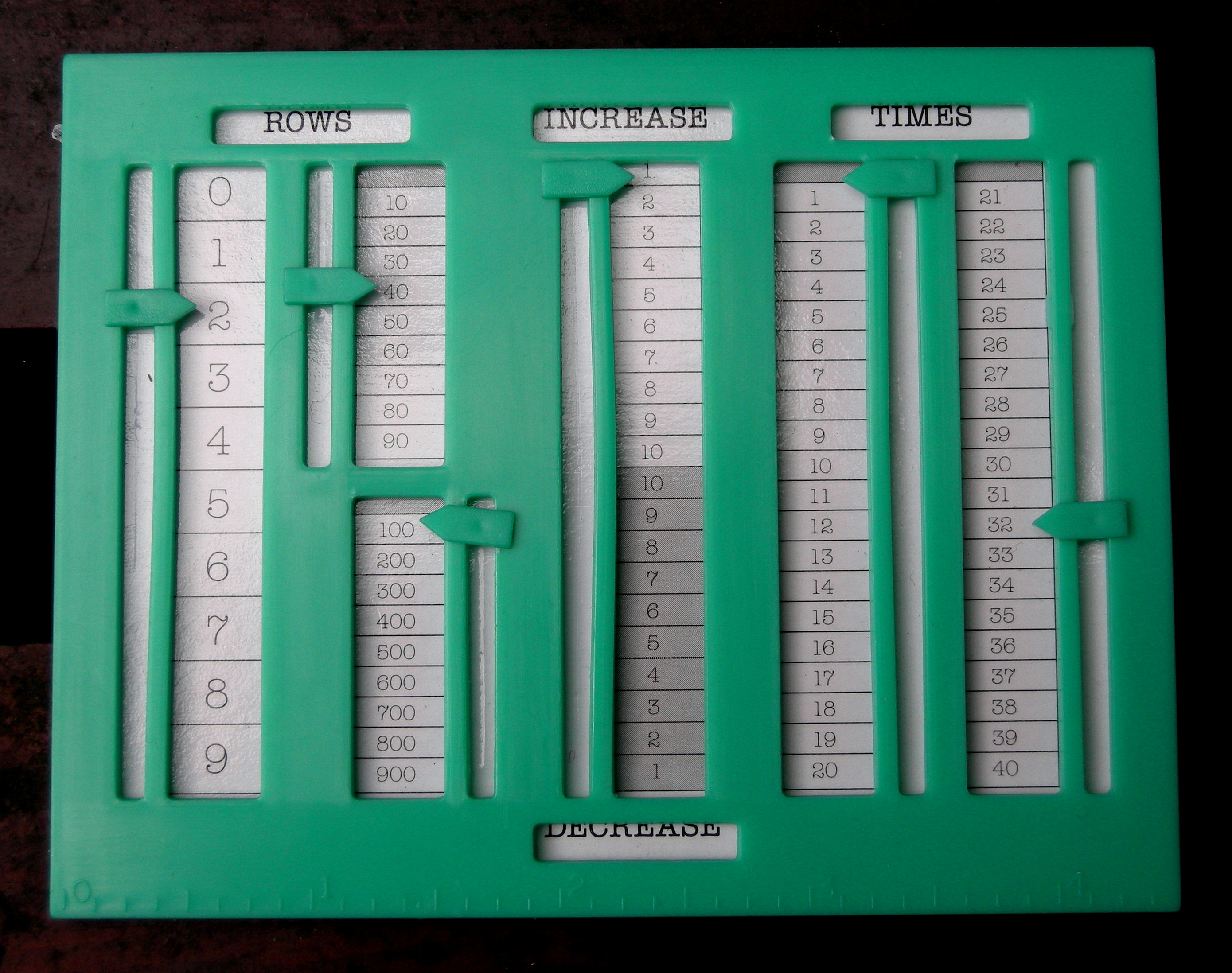 Green plastic complex knitting row counter, given away free with UK magazine Simply Knitting no.39, Spring 2008.